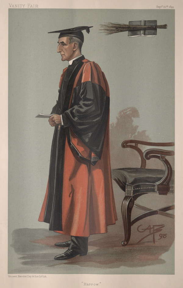 Men of the Day No.759: Caricature of The Rev Joseph Wood DD. Headmaster at Harrow (1898-1910). Caption reads: "Harrow"